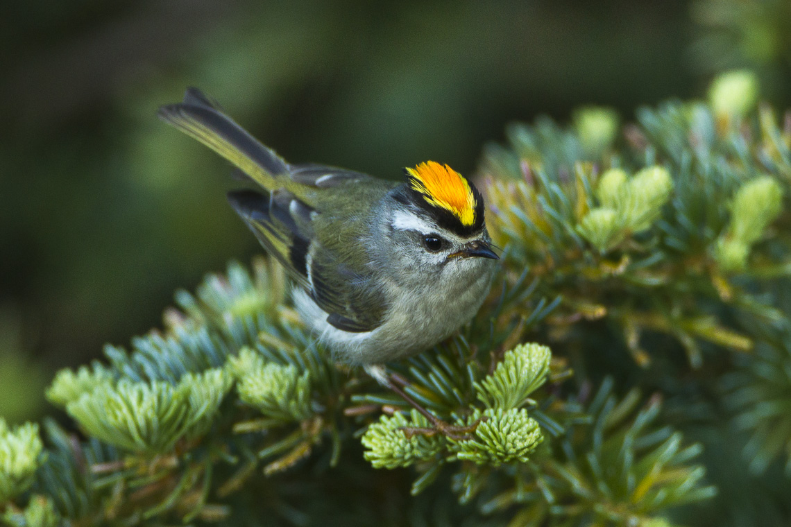 Golden-crowned Kinglet - Olympic NP - Washington_S4E2565